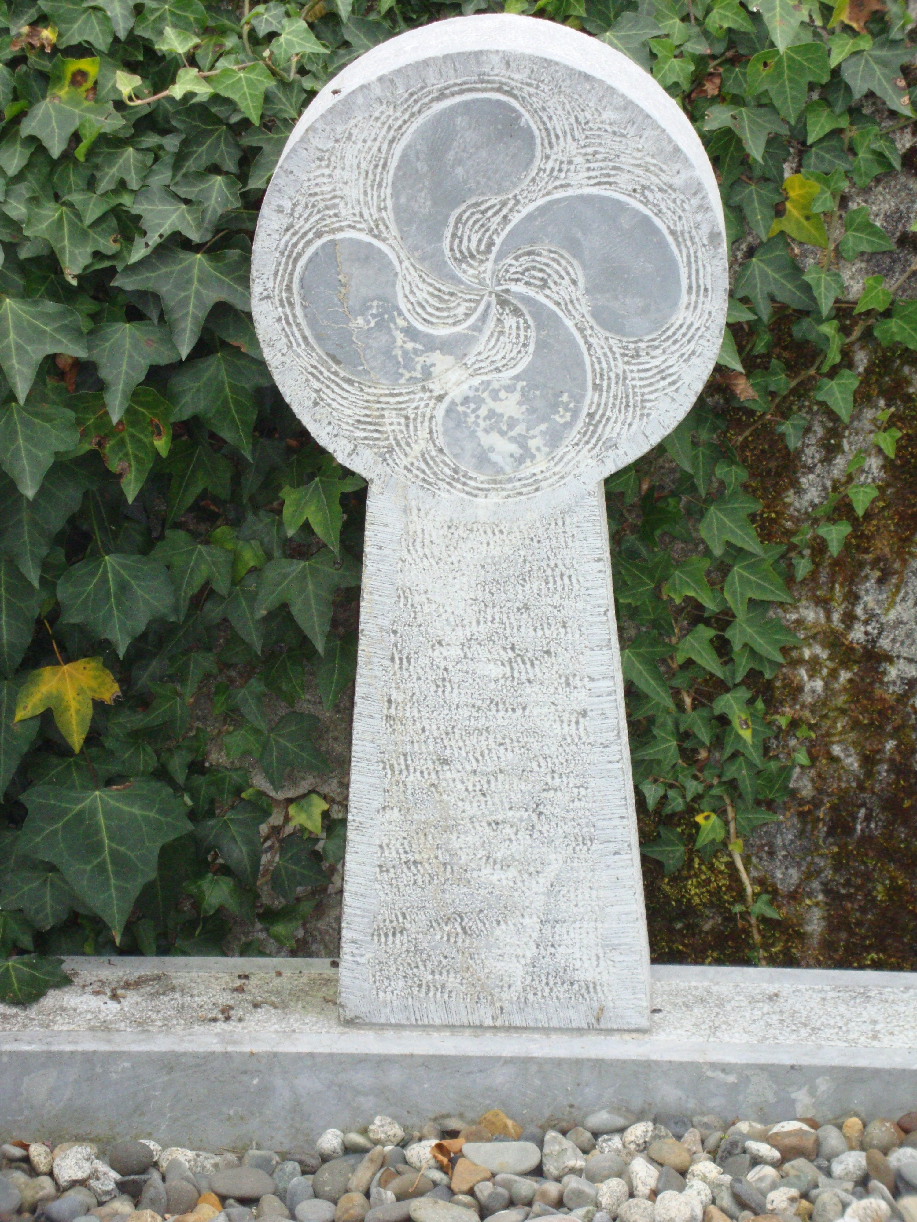 Estialesq (Pyr-Atl, Fr) discoidal stele. Such steles with a simple lauburu are widespread in the Northern Basque Country, following traditon